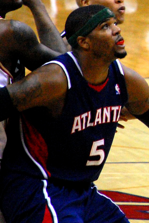 Josh Smith of the Atlanta Hawks This file has been extracted from another file: LeBron James watches free throw.jpg